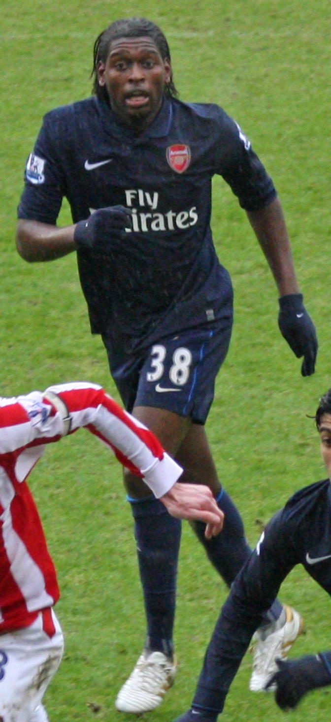 Jay Emmanuel-Thomas at a match between Stoke City F.C. and Arsenal F.C.